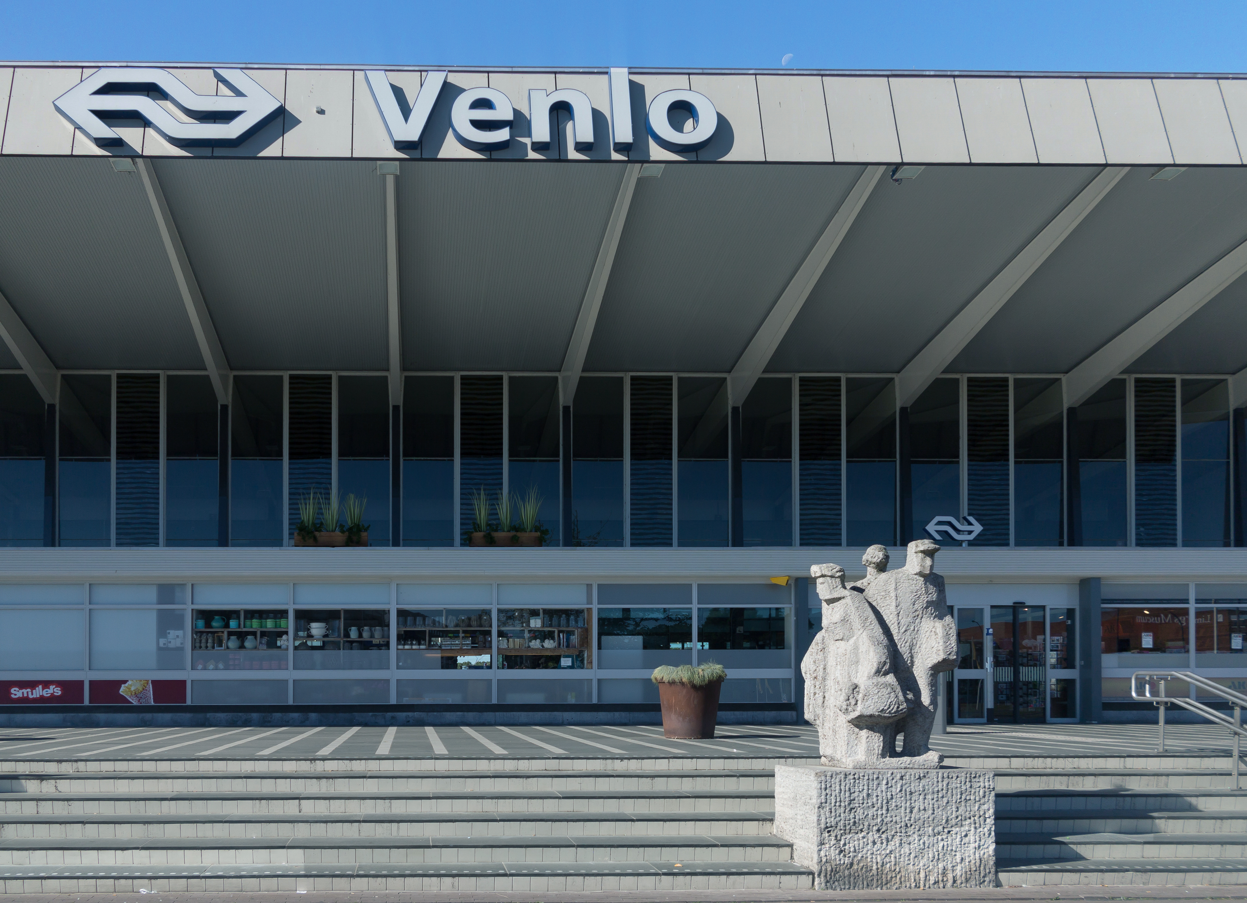 Venlo, sculpture: Reizigers (Travellers) before the railway station